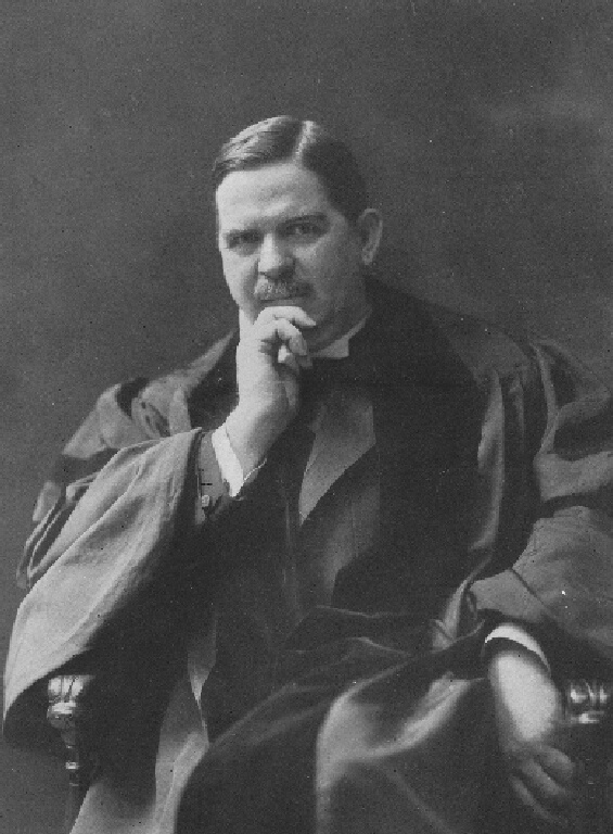 Portrait of Rev. S. Parkes Cadman (1864-1936) at age 46 in 1910.